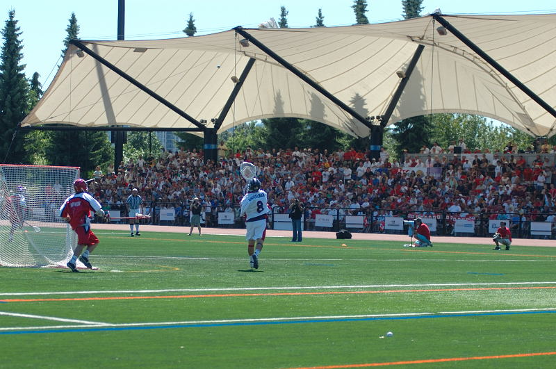 United States vs Canada during the 2008 ILF Under-19 World Lacrosse Championships at Percy Perry Stadium in Coquitlam